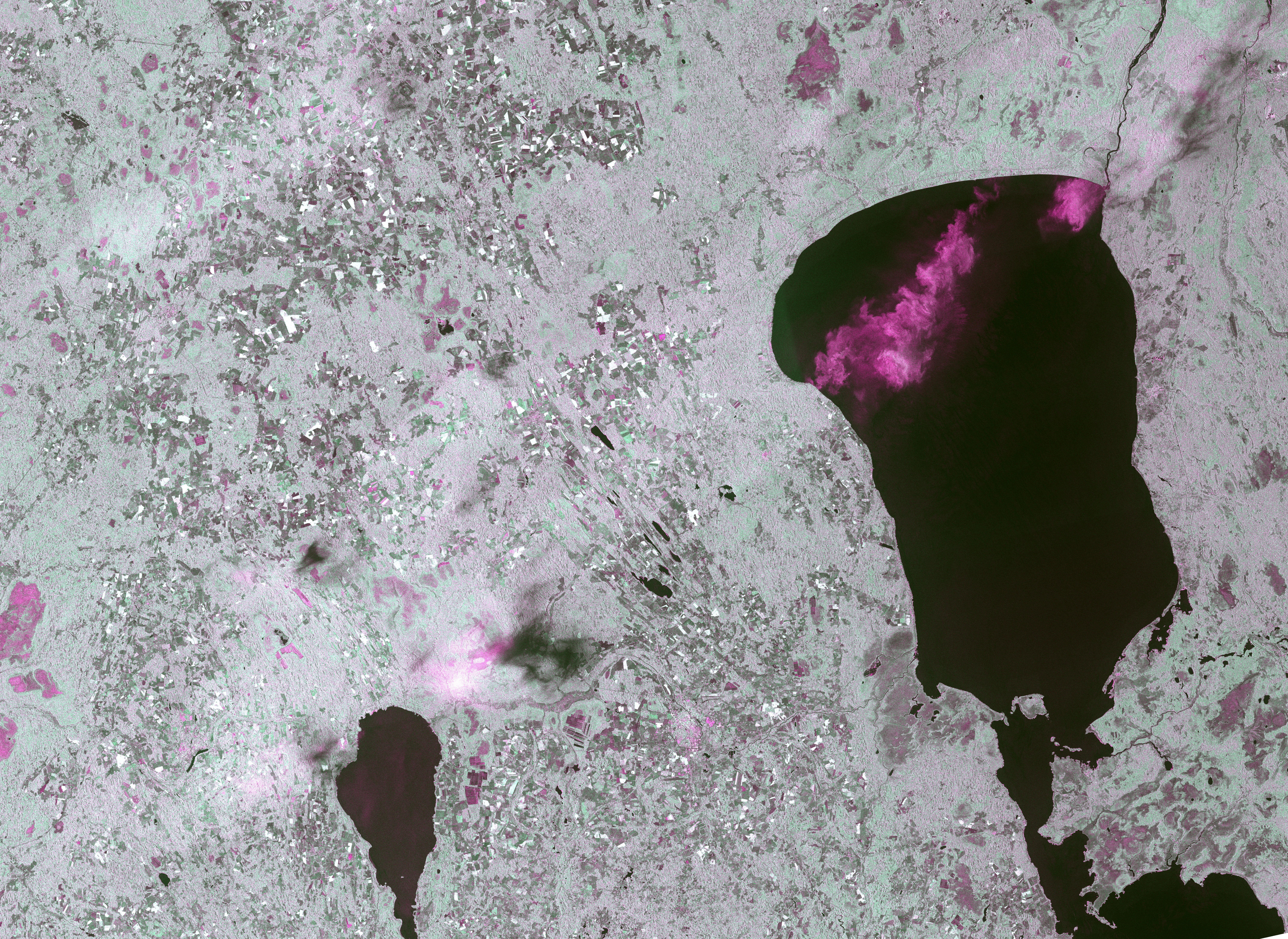 Synthetic Aperture Radar (SAR) is said to be weather independent. It is true in a majority of the cases - the microwaves do not interact with condensed water of clouds and light rain and the image represents the underlying land or sea. But sometimes in case of heavy rain or hail, like during the thunderstorms the size and density of water particles is enough to interact with the microwaves of a SAR. The image presents Estonia around the lakes of Võrtsjärv and Peipsi in the evening of August 12th, 2015 at 18:56 local time. During that time heavy thunderstorms were passing over Estonia, bringing car damaging apple sized hail particles with them. According to Estonian Weather Service ground-based meteorological radar the vertical profiles of the thunderstorm centres were exceeding 10 km of height. Notice the white and purple areas in the photo over land and lake Peipsi at left. Notice also the dark areas over land. The bright-white and purple areas correspond to backscattering from the atmosphere in the heavy rainfall areas. Dark areas is land backscattering, which is attenuated, because the SAR signal travelled through the rainfall cloud. Due to the side-looking geometry of the SAR system and tall profile of the thunderstorm clouds the bright backscattering and dark attenuation areas of the same cloud are misplaced. The bright backscattering is located in the left of the dark attenuation area as satellite beam was looking from left side. Using ground based weather radar and spaceborne SAR data it is possible to re-construct the thunderstorm clouds in 3D. Satellite look direction left (ascending orbit), incidence angle range 34-45 degrees, false colour RGB, R=VV-, G=VH- and B=VV+VH-polarisation backscatter.